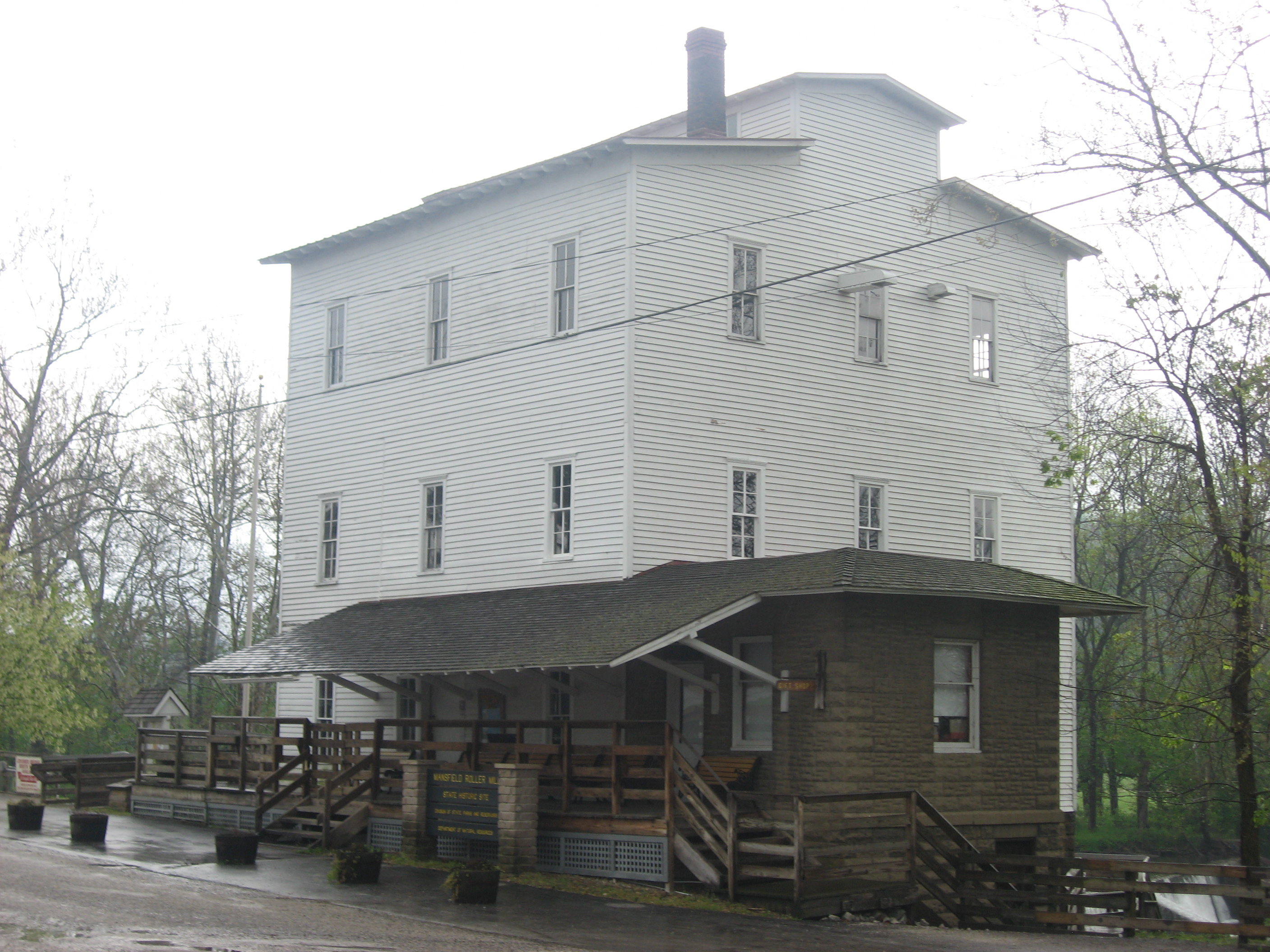 Southern and western sides of the Mansfield Roller Mill, located along Big Raccoon Creek on Main Street in Mansfield, Indiana, United States. Built in 1880, it is listed on the National Register of Historic Places.